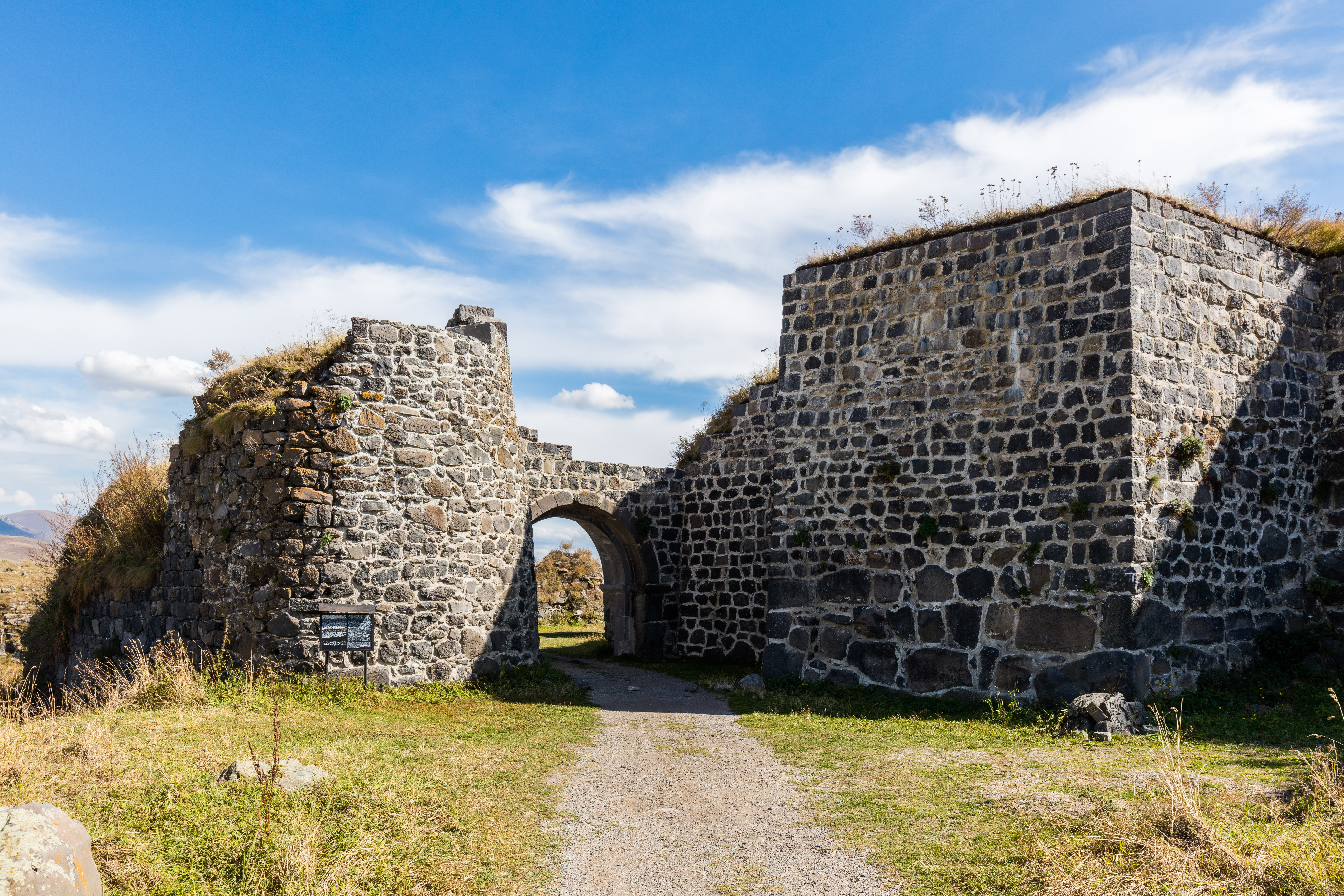 Lori Berd, Armenia